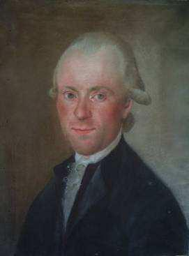 Michal Blažek (1753-1827), first reformed superintendent in Moravia